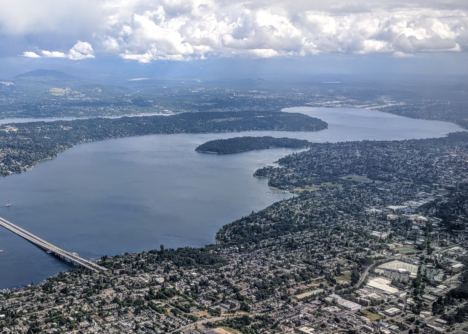 Aerial view from the northwest of Seattle's Mount Baker neighborhood (near side of lake, far side of I-90 bridge–tunnel), with Lake Washington